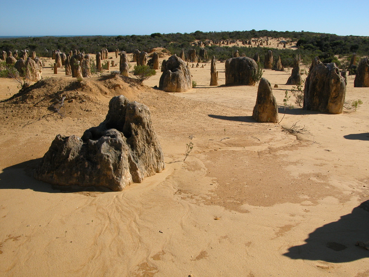 Limestone pillars, commonly known as "The Pinnacles", in Nambung National Park.